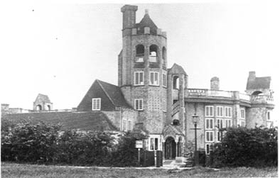 From a photograph in my collection